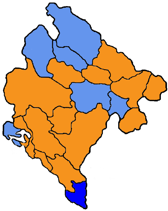 Results of Montenegro, municipal elections, 2004-06 by municipality.